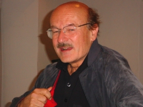 Volker Schlöndorff at Filmfest Biberach in 2004